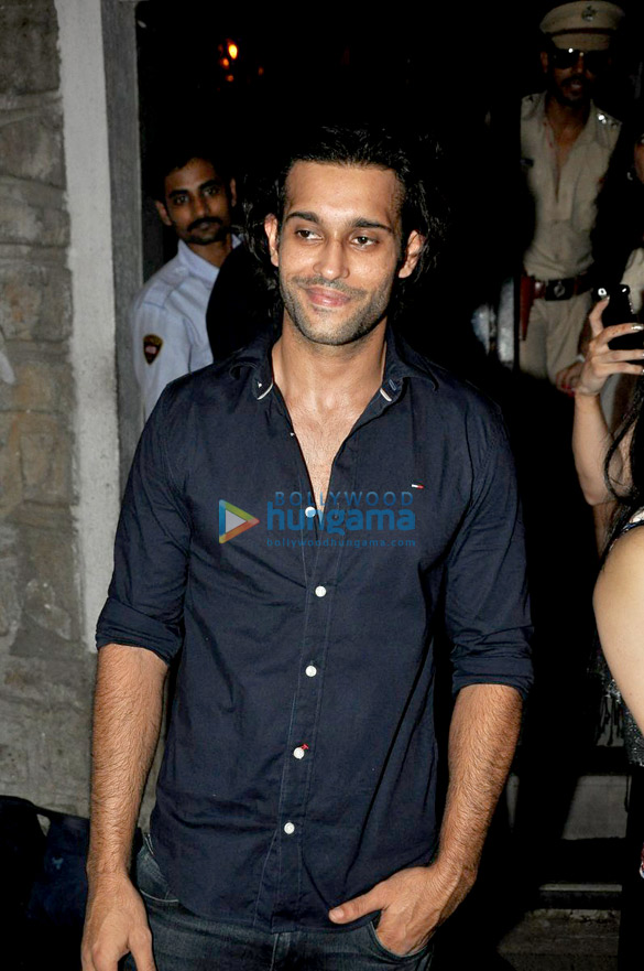 Its a picture of Akhil Kapur in 2014.